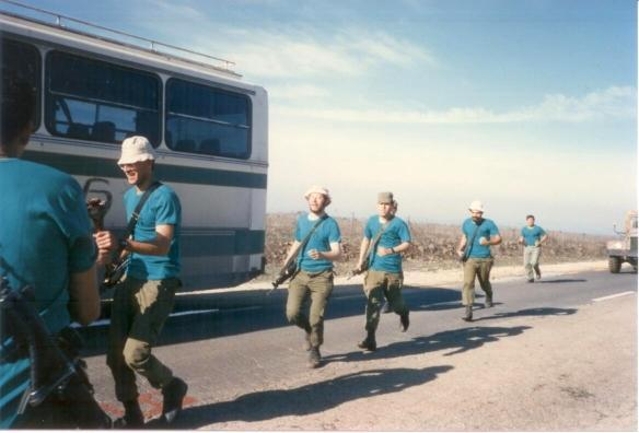 Soldies of 401 brigade running a torch Relay race in the Golan Heights, Hanuka 1987